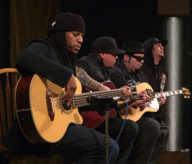 American nu metal musical group P.O.D. playing an acoustic set in San Diego, California.